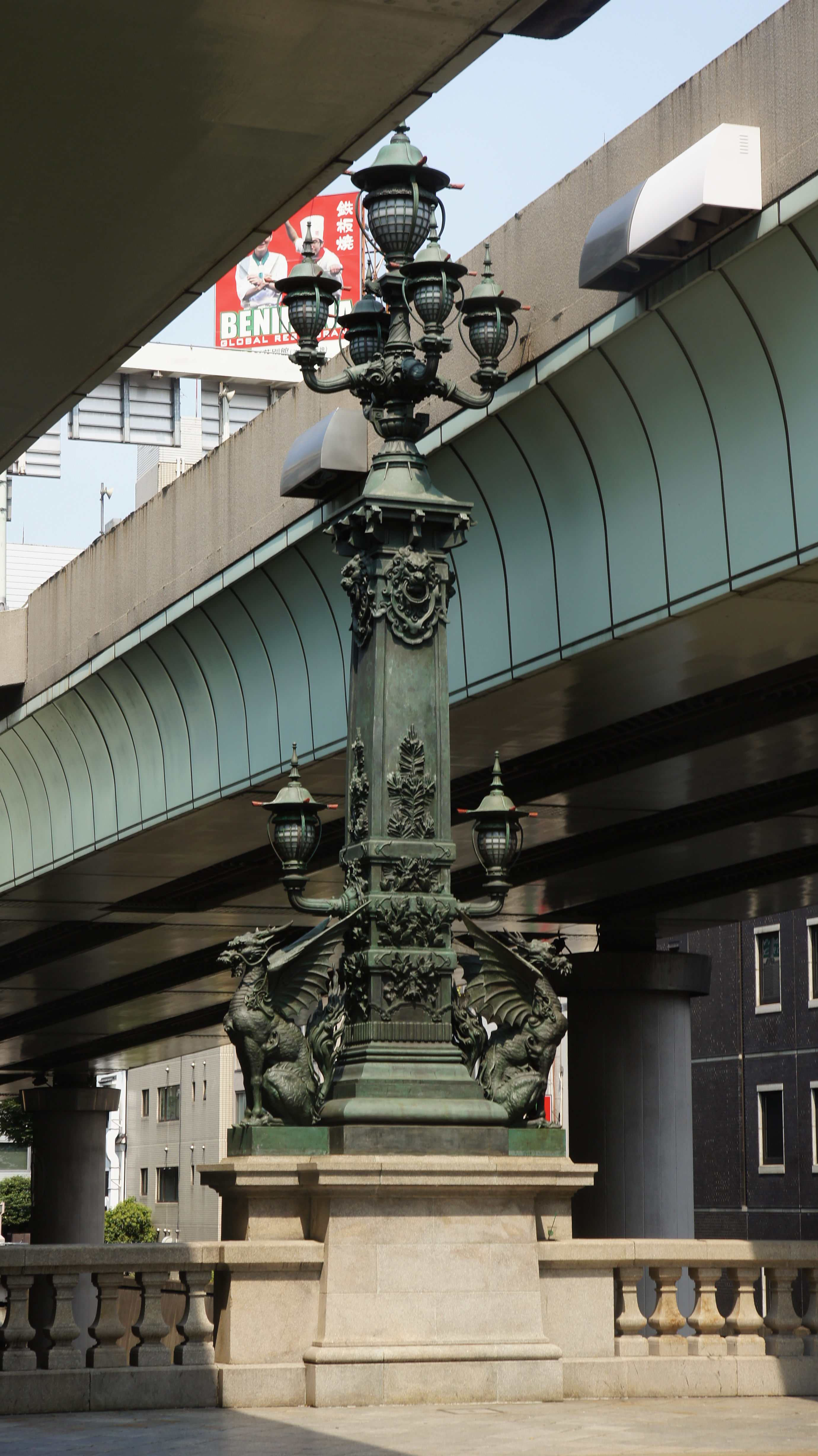 Kirin at the Nihonbashi